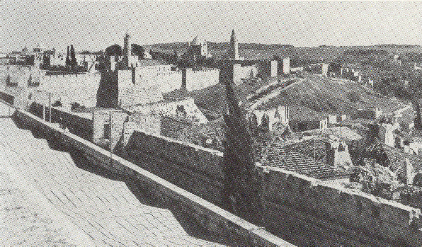 Jerusalem view from city wall early 1950s. Tower of David and Mount Zion. Photo caption:"Tatt intill den gamla stadsmuren loper en remsa Ingenmansland. I bakgrunden Dormitio-abbotstiftets kloster kyrka."